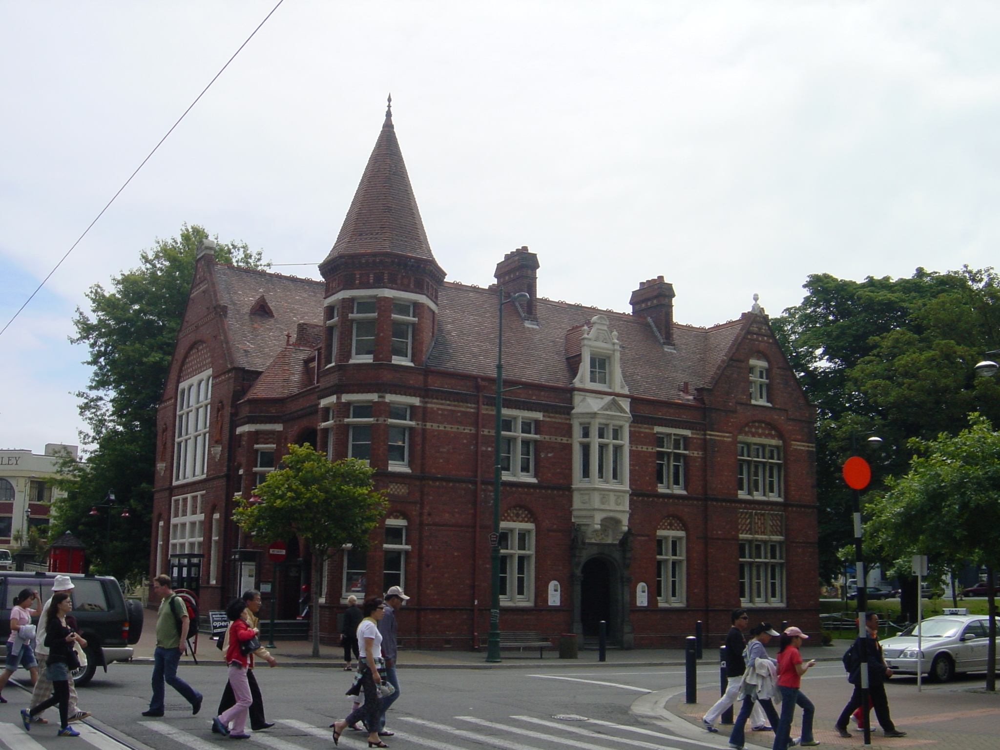 Our City O-Tautahi is a Queen Anne style building was once the home of Christchurch City Council. It now houses an exhibition of on-going Christchurch affairs.